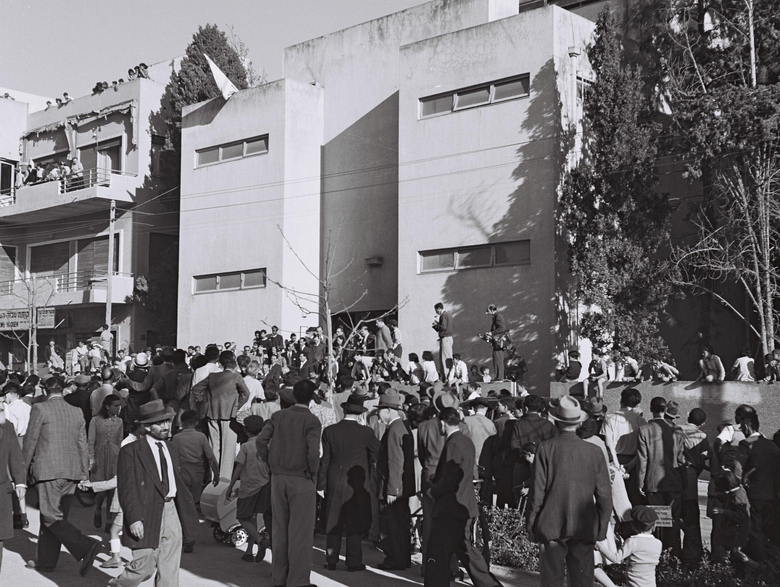 Tel Avivians waiting for the delegates to leave the museum building after the signing of the Declaration of Independence on Rothschild Blvd. In Tel Aviv. קהל סקרנים ממתינים מחוץ למוזיאון תל אביב, עת הכרזת עצמאות מדינת ישראל.